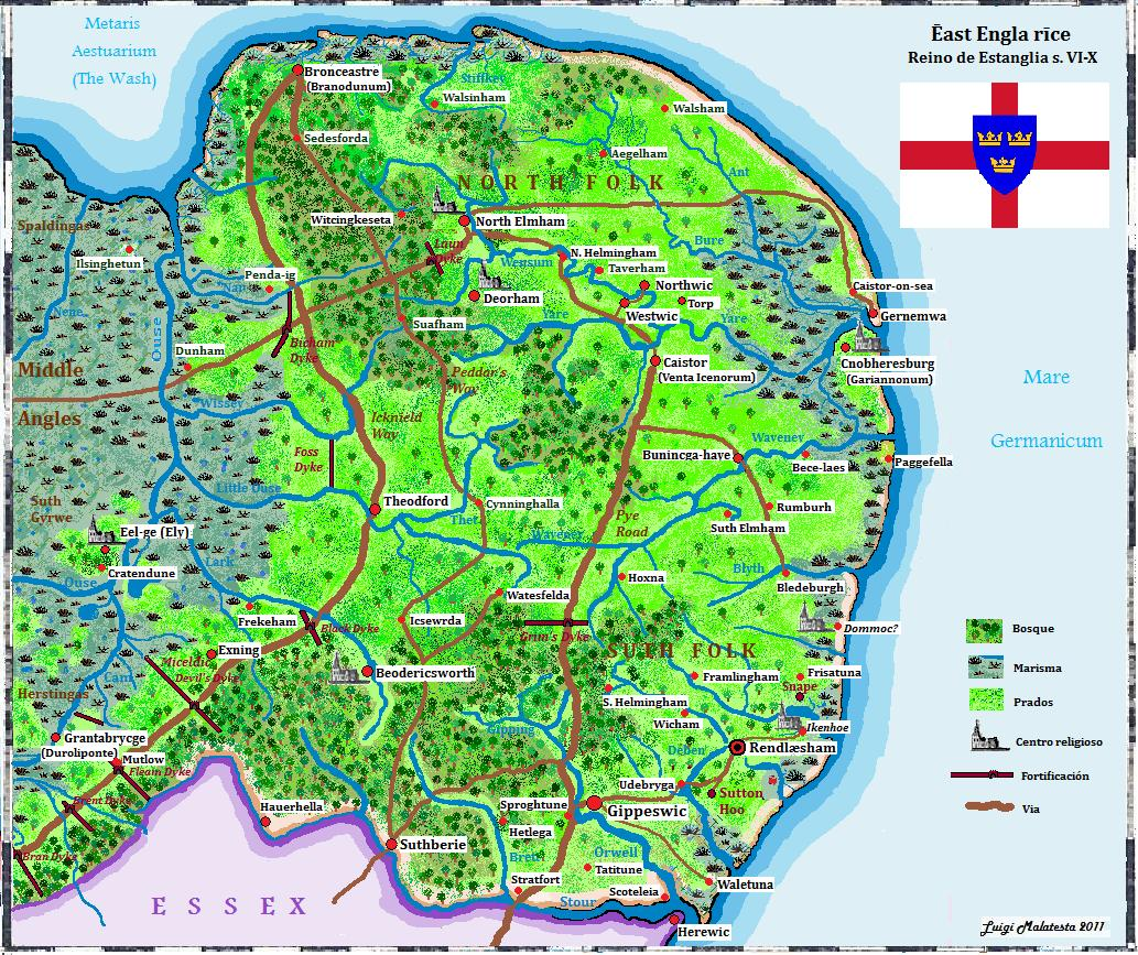 Ancient Kingdom of East Anglia